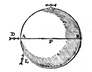 "Tellera": spheric magnet made by William Gilbert